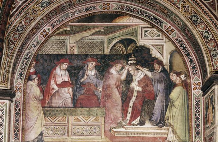 Fresco by Spinello Aretino at Siena: Coronation of Pope Alexander III